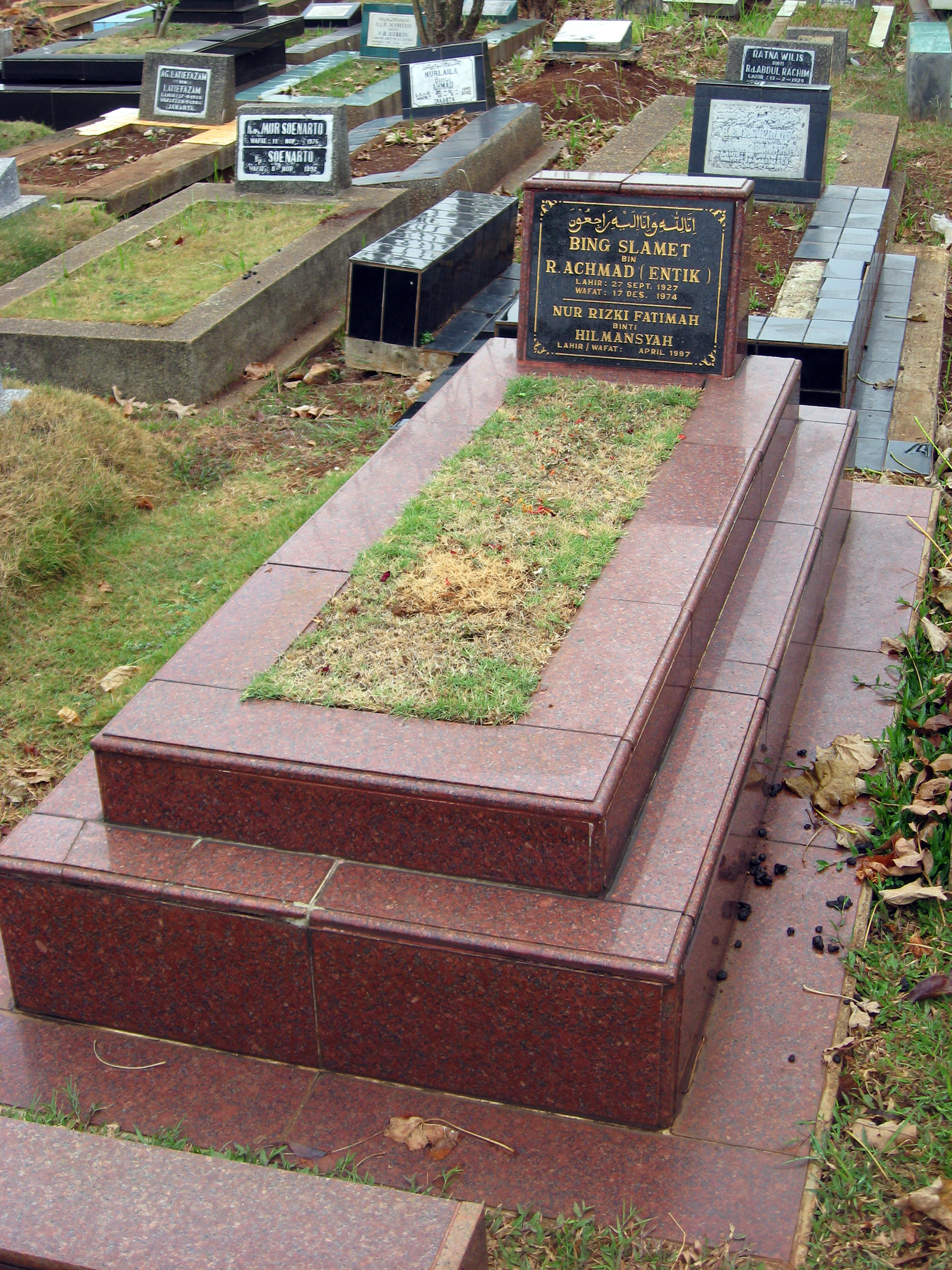 The grave of Indonesian singer Bing Slamet in Karet Bivak Cemetery, Jakarta